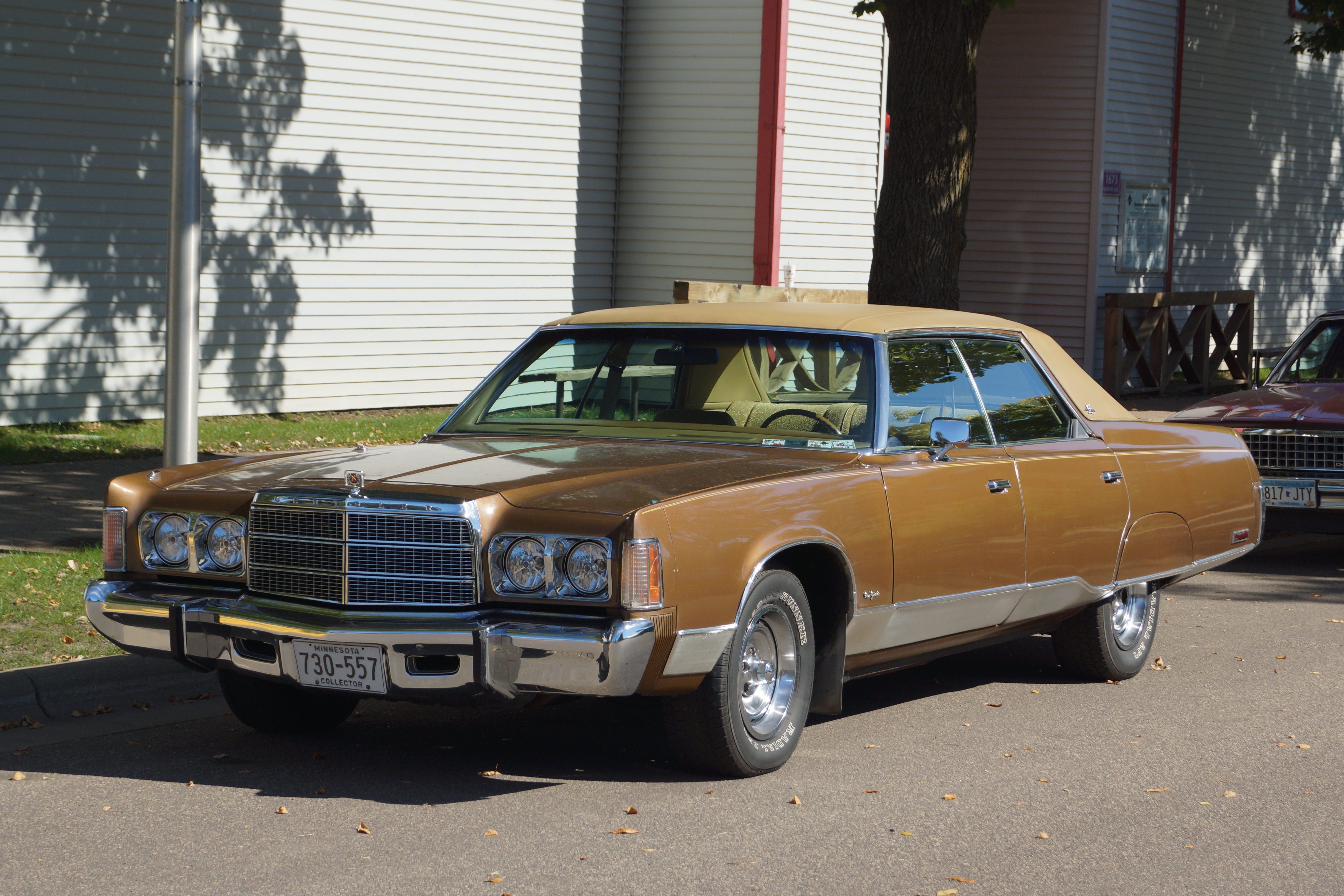 46th Annual Midwest Fall Swapmeet & Car Show Sponsored by the Capitol City Chapter of the AACA and the Twin Cities Model "A" Ford Club Minnesota State Fairgrounds St. Paul, Minnesota October 2016 Click here for more car pictures at my Flickr site.